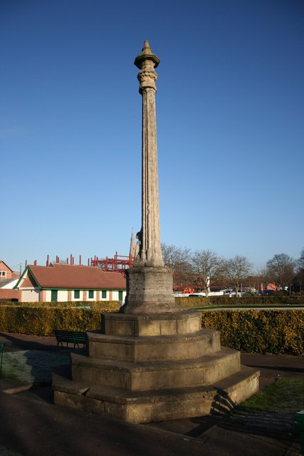 Beaumond Cross Relocated to London Road Gardens from the south end of Carter Gate, a much weathered 15th century cross shaft repaired and ornamented in 1778, restored again in 1801.